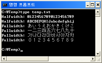 A Korean Windows Command Prompt (cmd.exe) showing halfwidth and fullwidth characters.